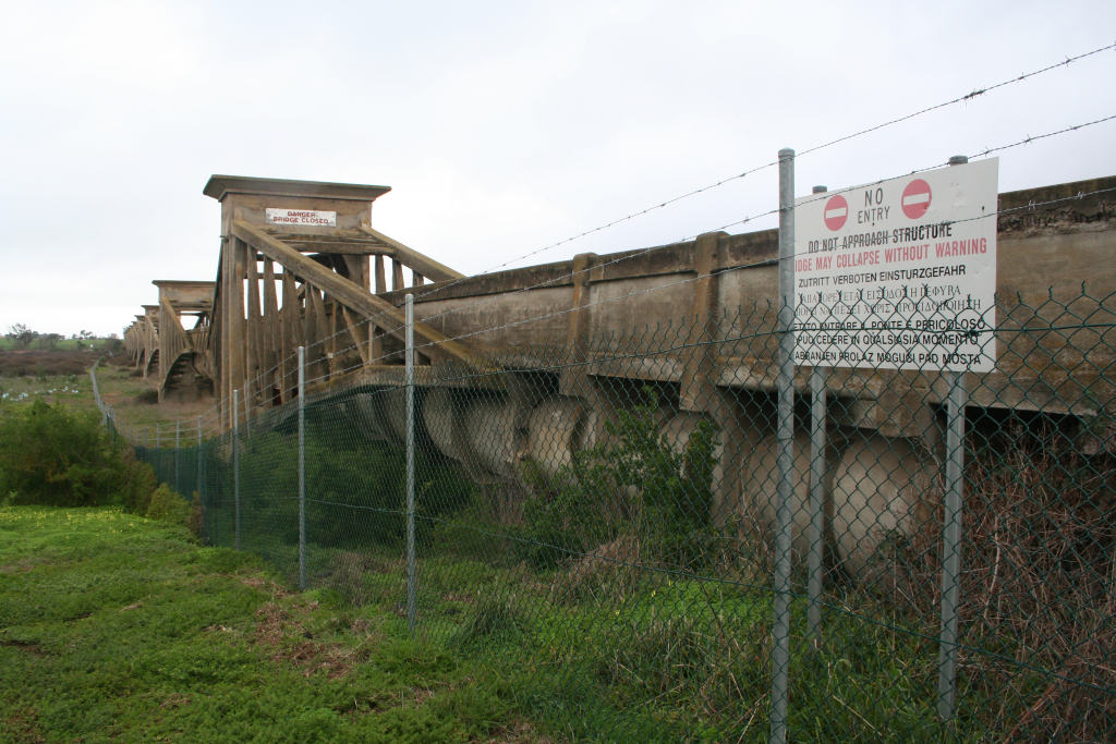 Decommissioned sewer aqueduct - Geelong, Victoria, Australia